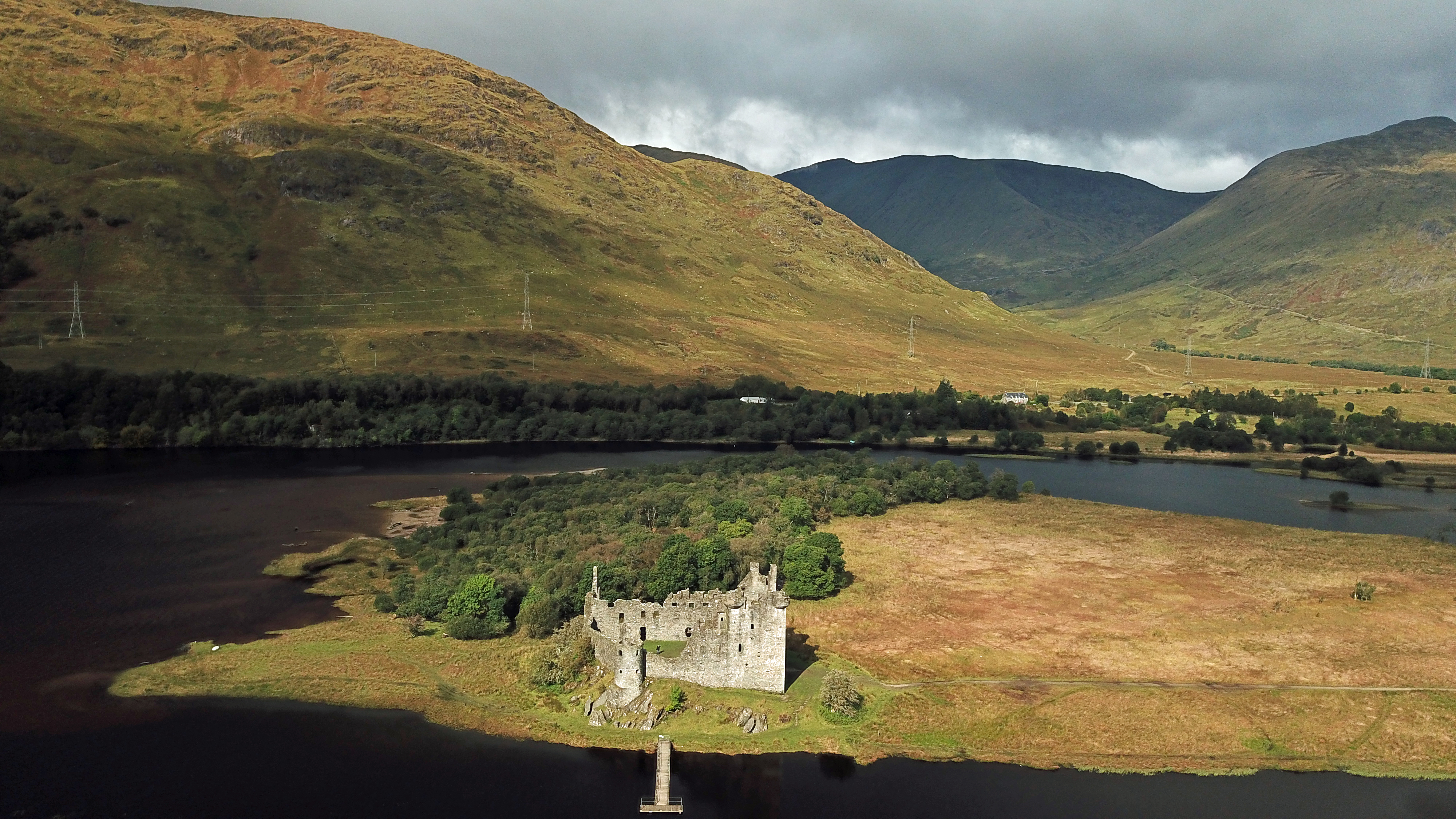 Kilchurn Castle